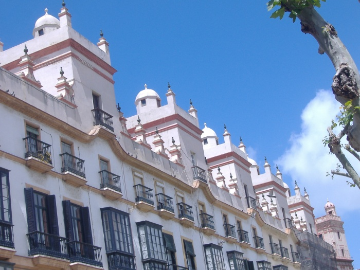 Casa de las Cinco Torres. Cadiz, Spain.